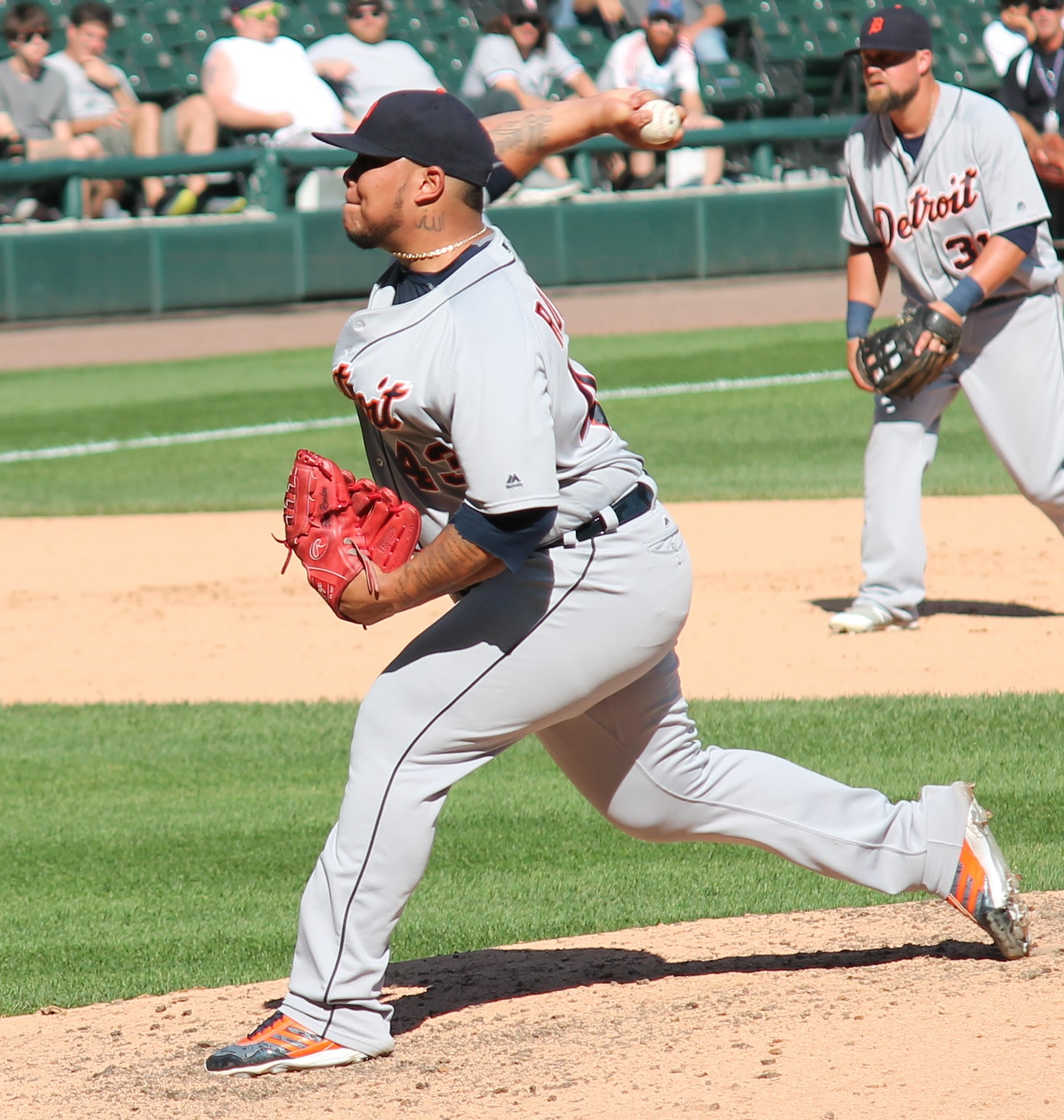 Bruce Rondón, pitcher for Detroit Tigers during pitch, 2016-09-07 versus Chicago White Sox. Rondón came into the game as a relief pitcher. Casey McGehee is in the background